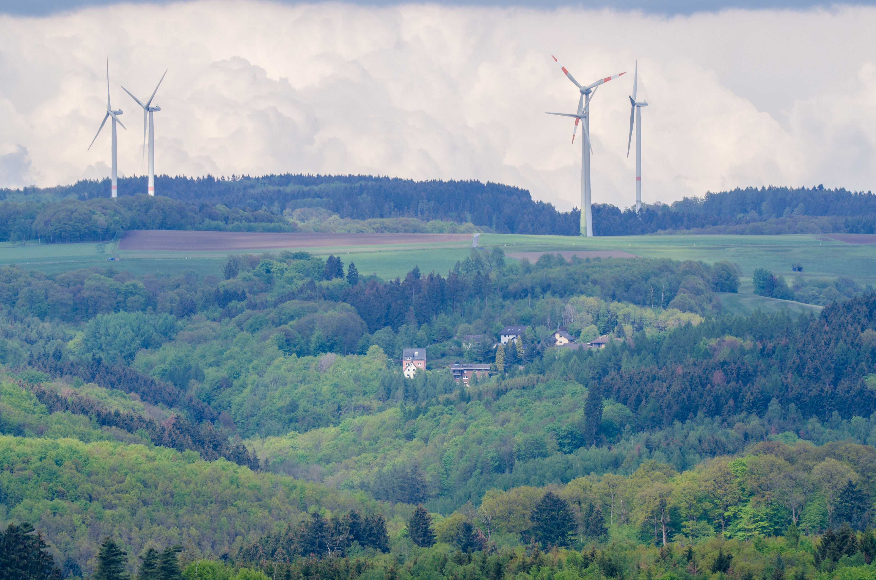 Westerwald